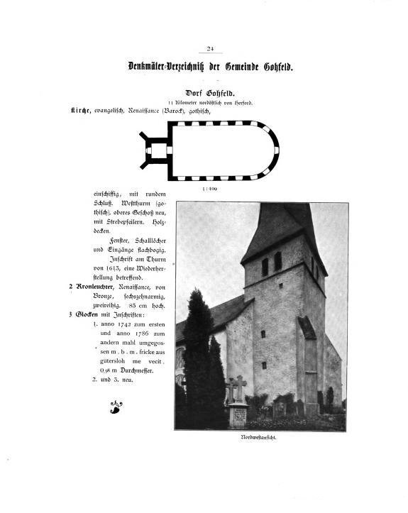 Pages from 1908 book series Bau- und Kunstdenkmäler von Westfalen (